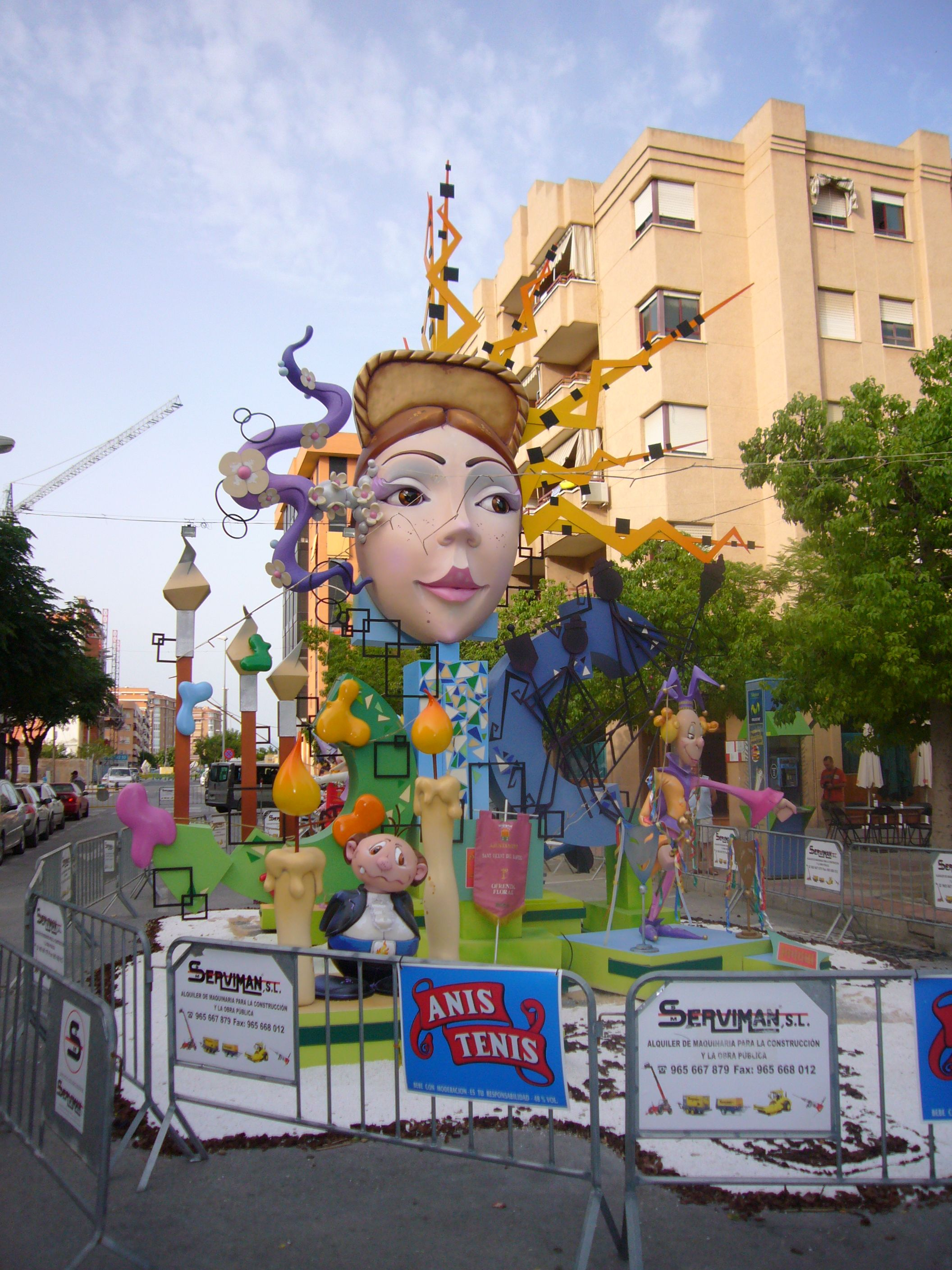 Bonfire L'Entrá to the Poble de San Vicente del Raspeig. (2008)